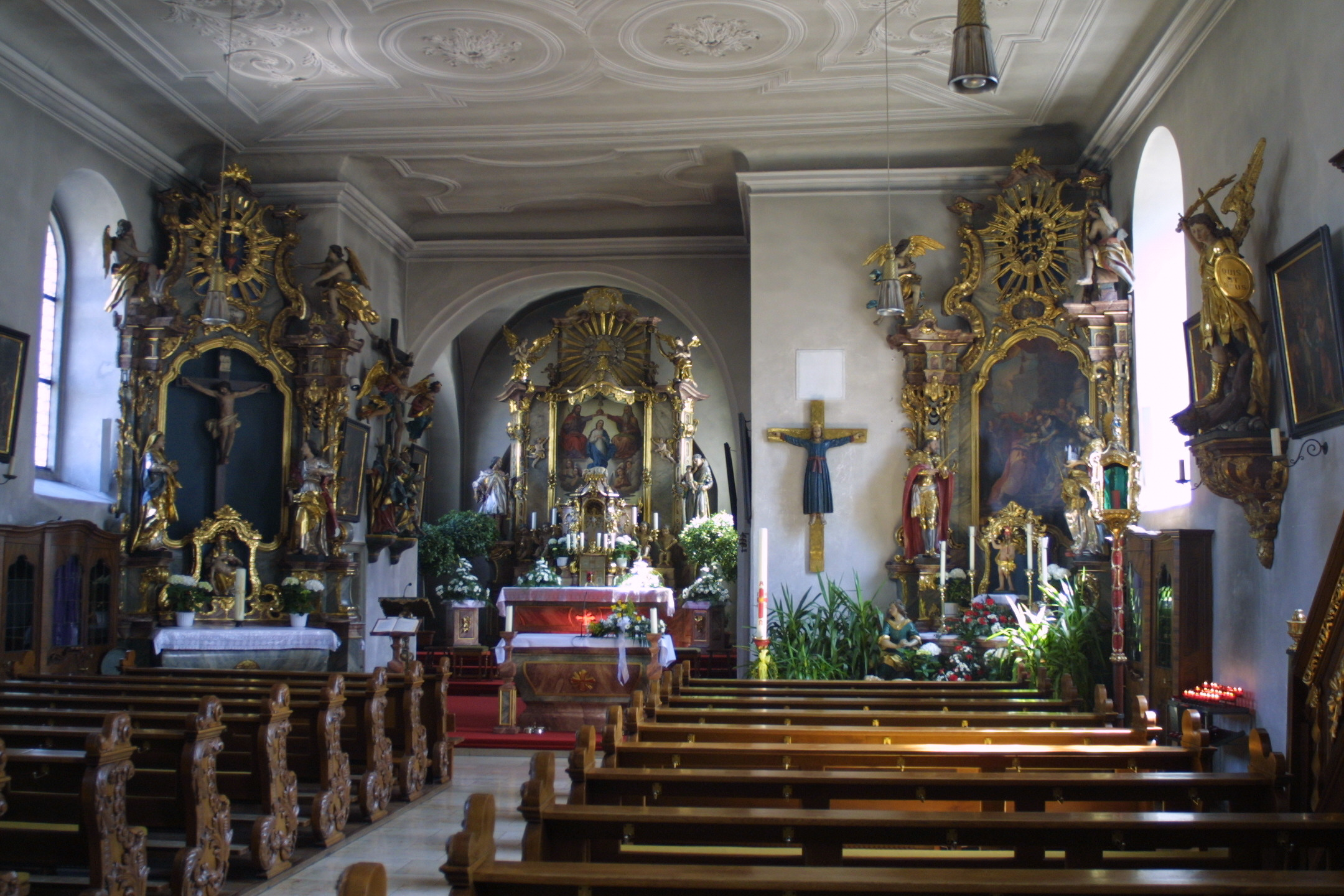 Memmelsdorf, interior view of the Parish Church of the Assumption from west.